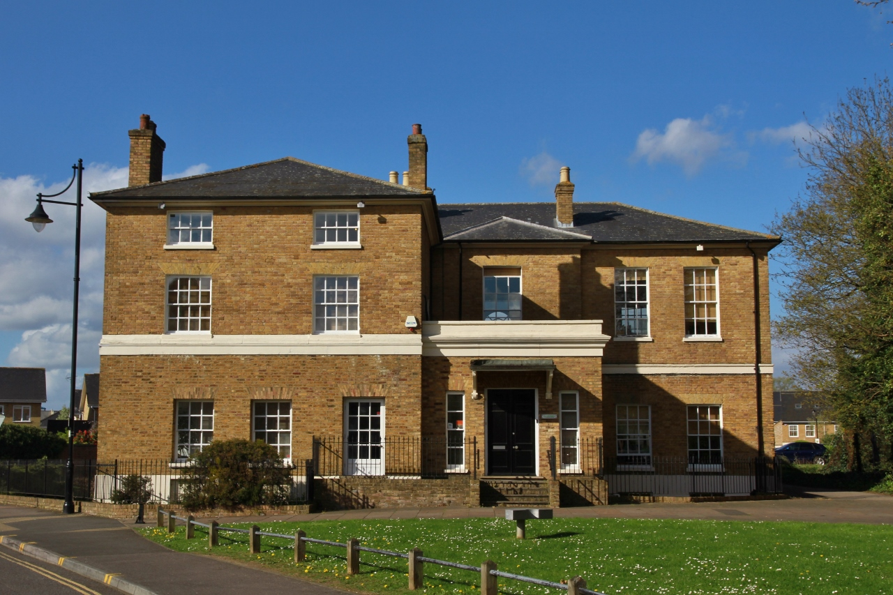 The Old Station, Wraysbury Road, Staines, Middlesex, seen from the south